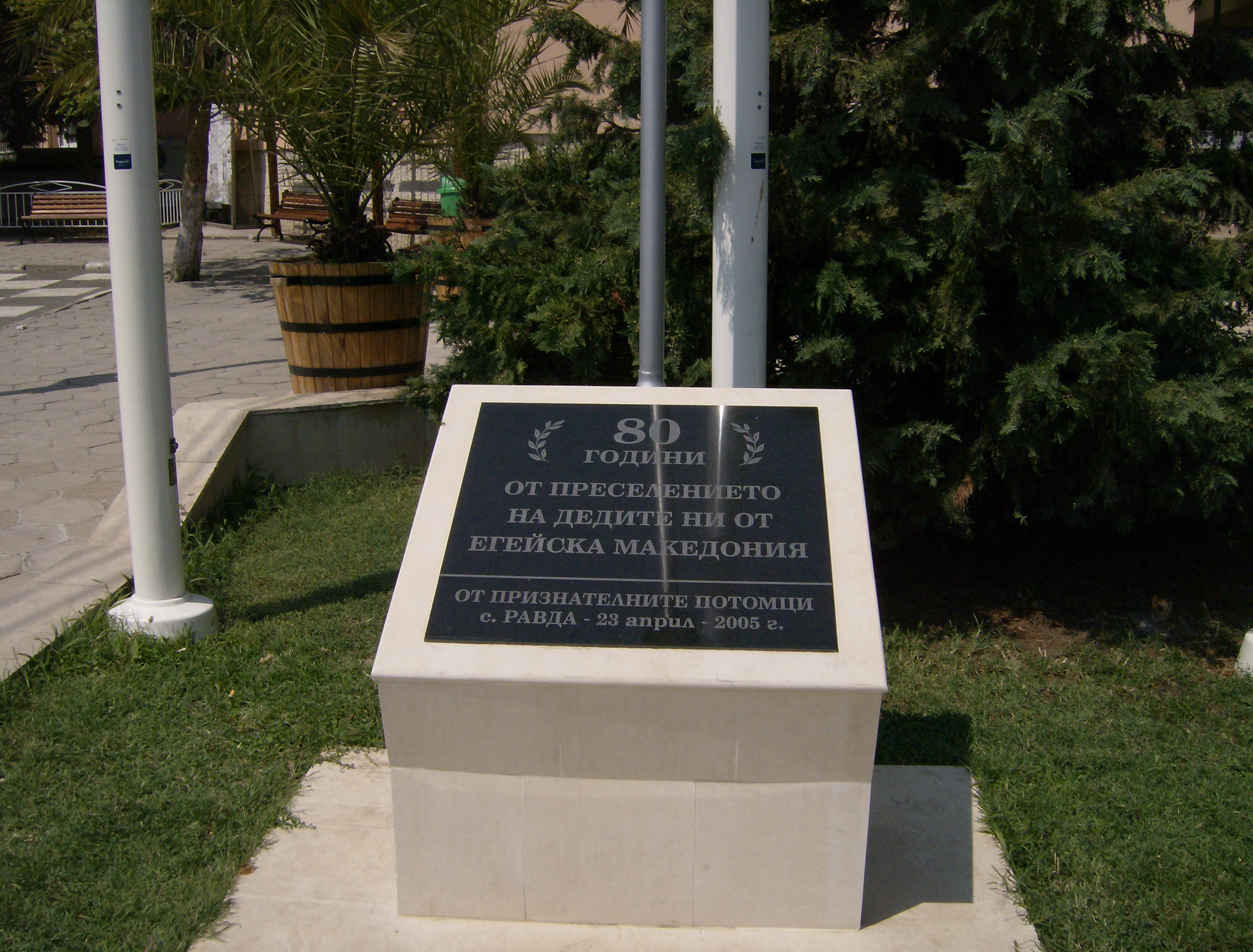 Ravda